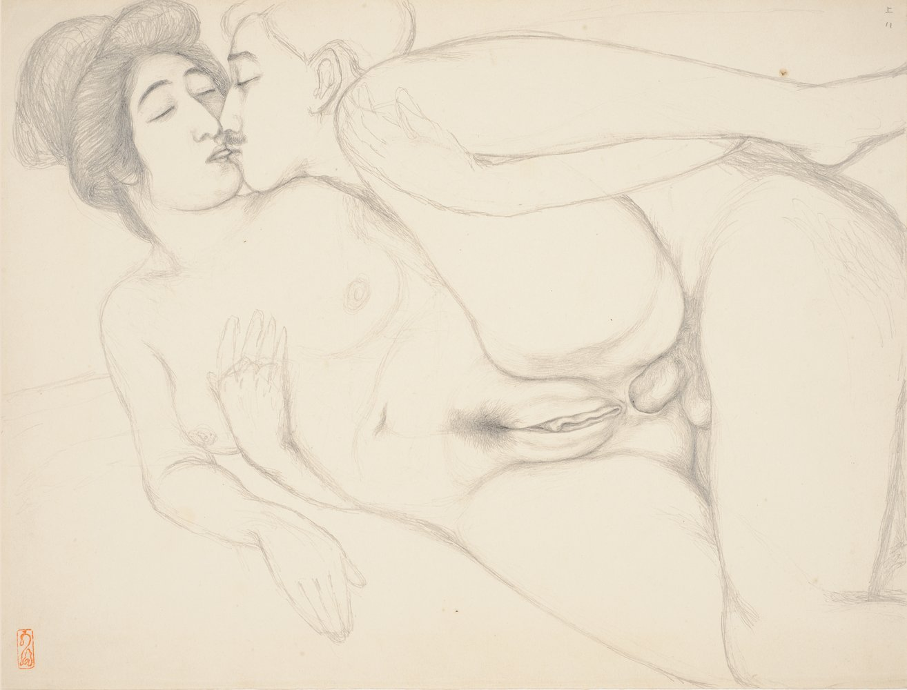 Untitled (Self-Portrait with Nakatani Tsuru) byHashiguchi Goyo , c. 1920, Drawing; graphite on paper